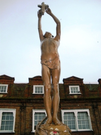 The central bronze figure of the Dover War Memorial